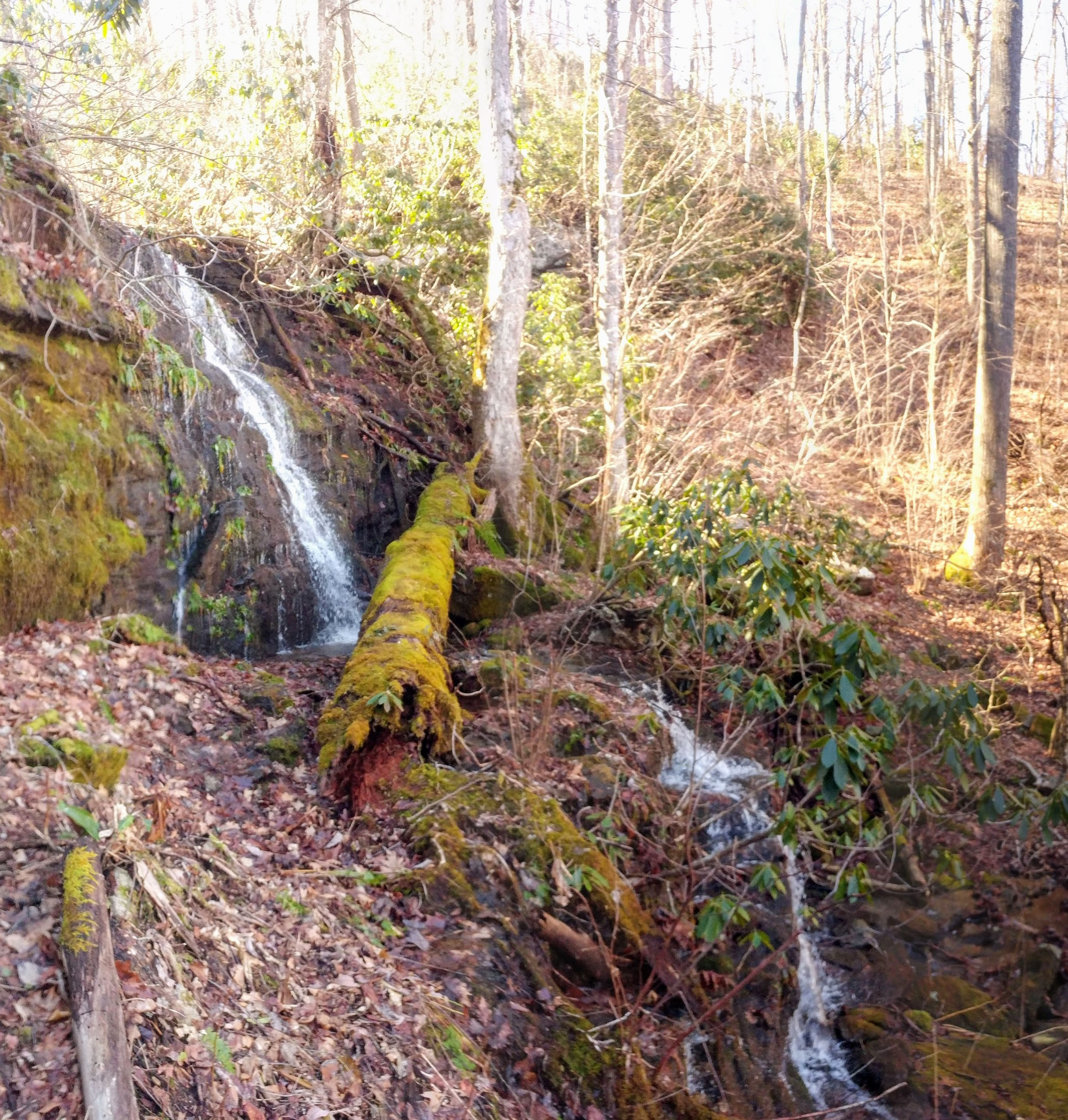 Photo of Big Rock Falls and its punchbowl on Little Pisgah Mountain in Fairview, North Carolina.